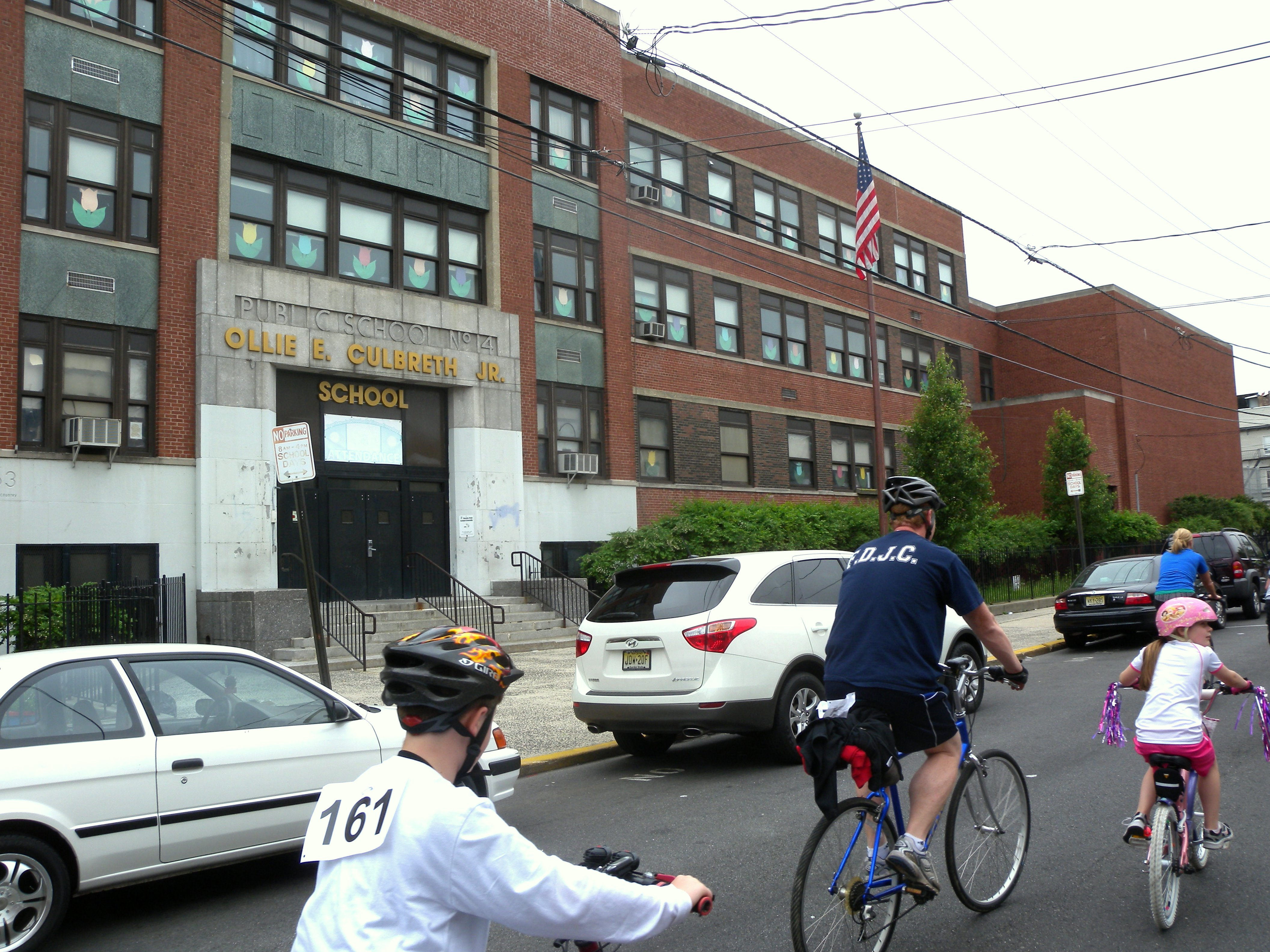 Looking west at Culbreth Elementary School on a cloudy morning.